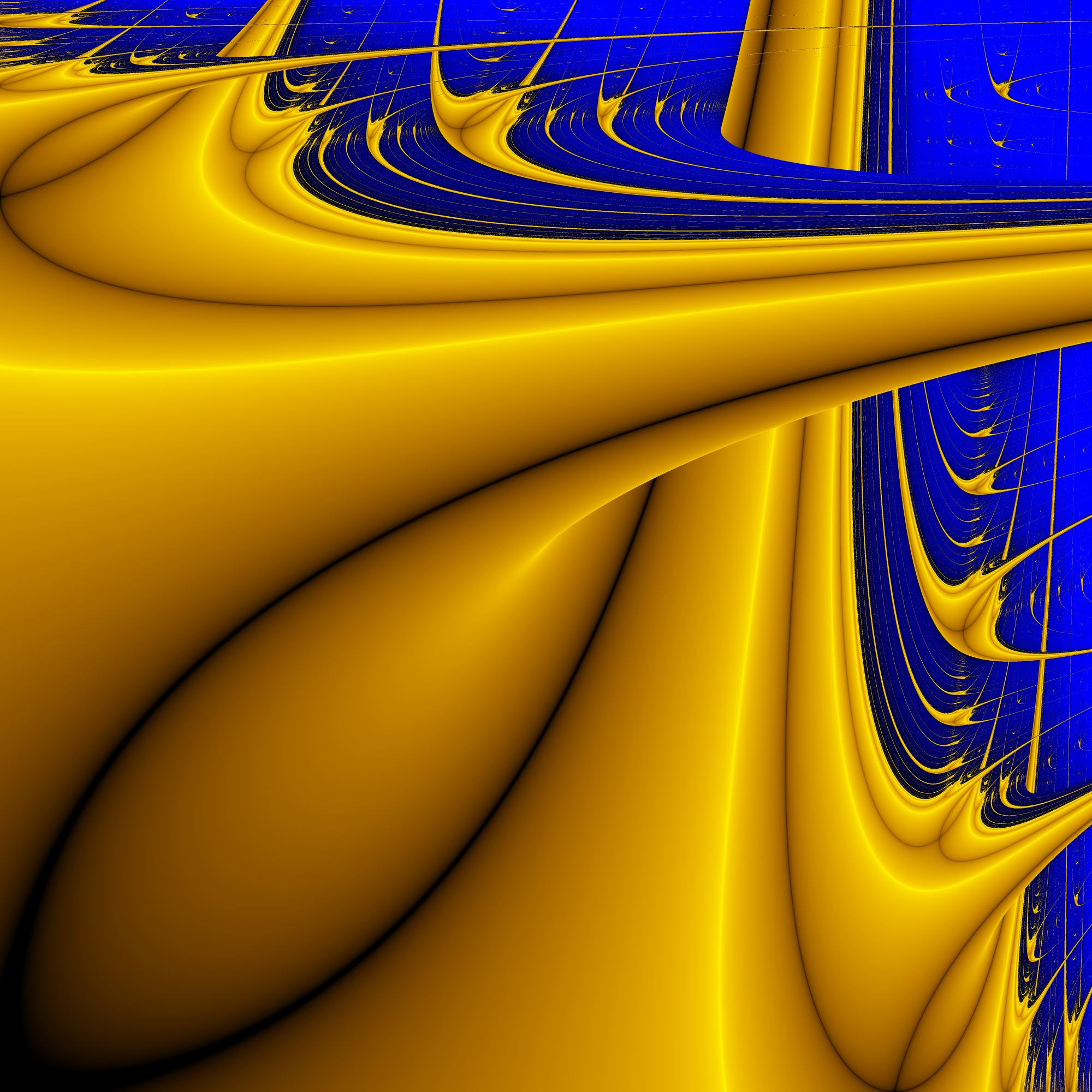 Lyapunov fractal for the sequence AB, a and b in [2,4], a as y-coordinate and b as x-coordinate. Downsampled from a 6000x6000 image.